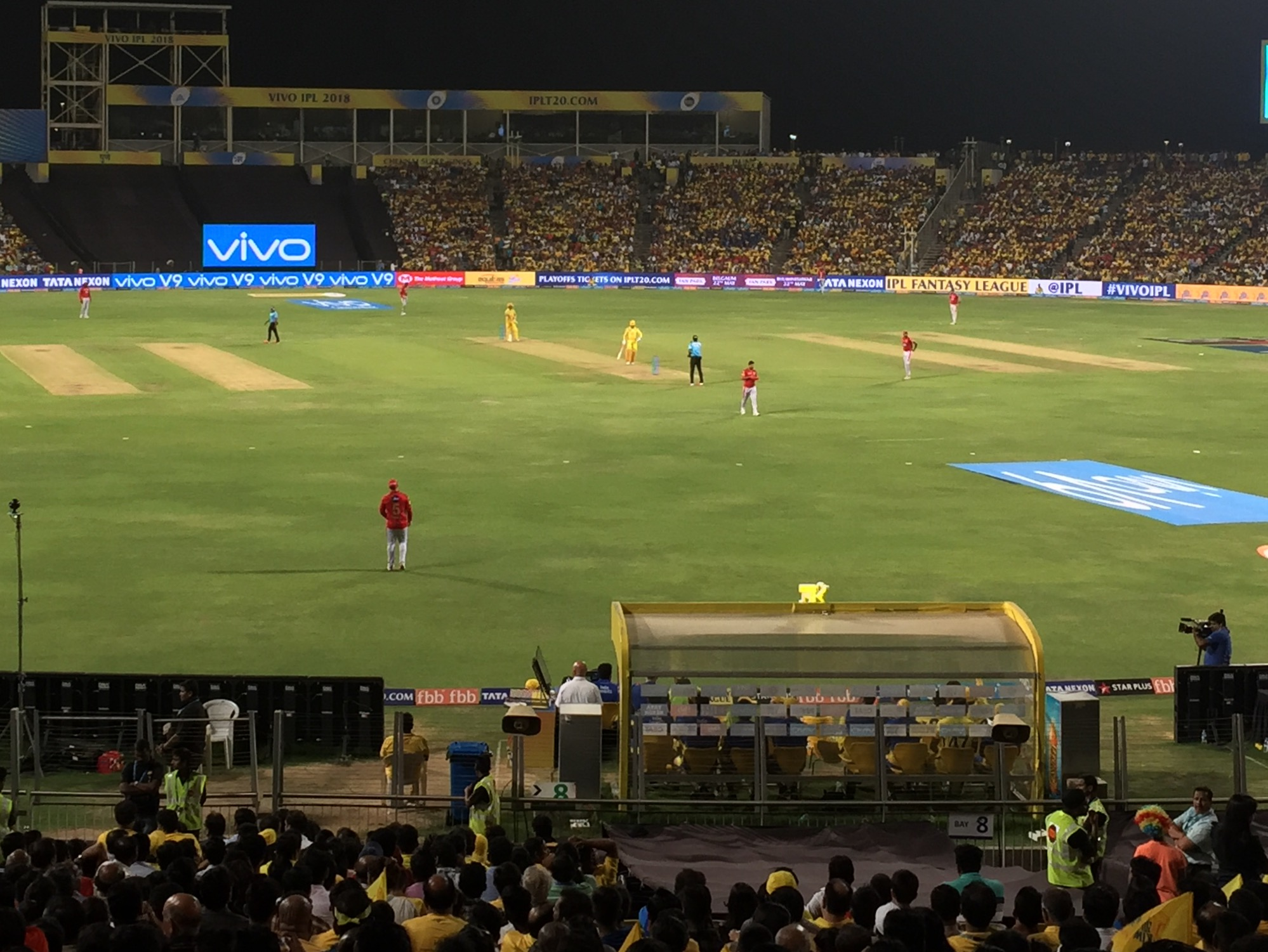 This is a photo of the Chennai Super Kings playing against the Kings XI Punjab in Pune, Maharashtra in the IPL 2018.